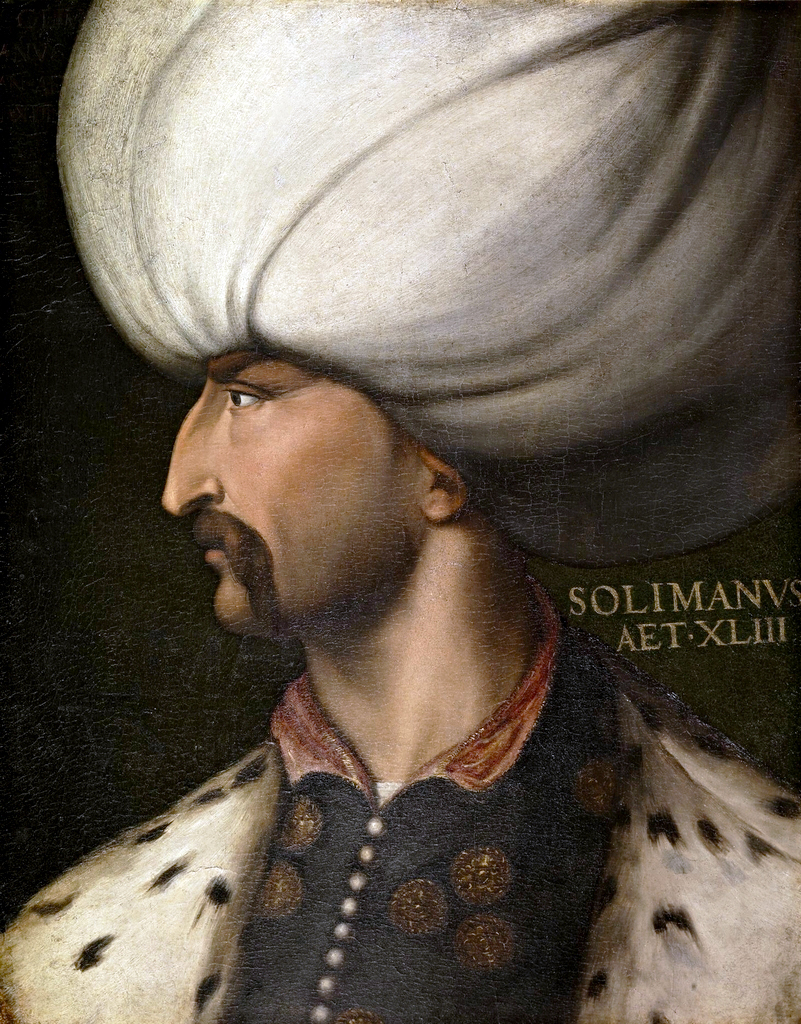 Portrait of Sultan Suleiman the Magnificent (1494–1566)